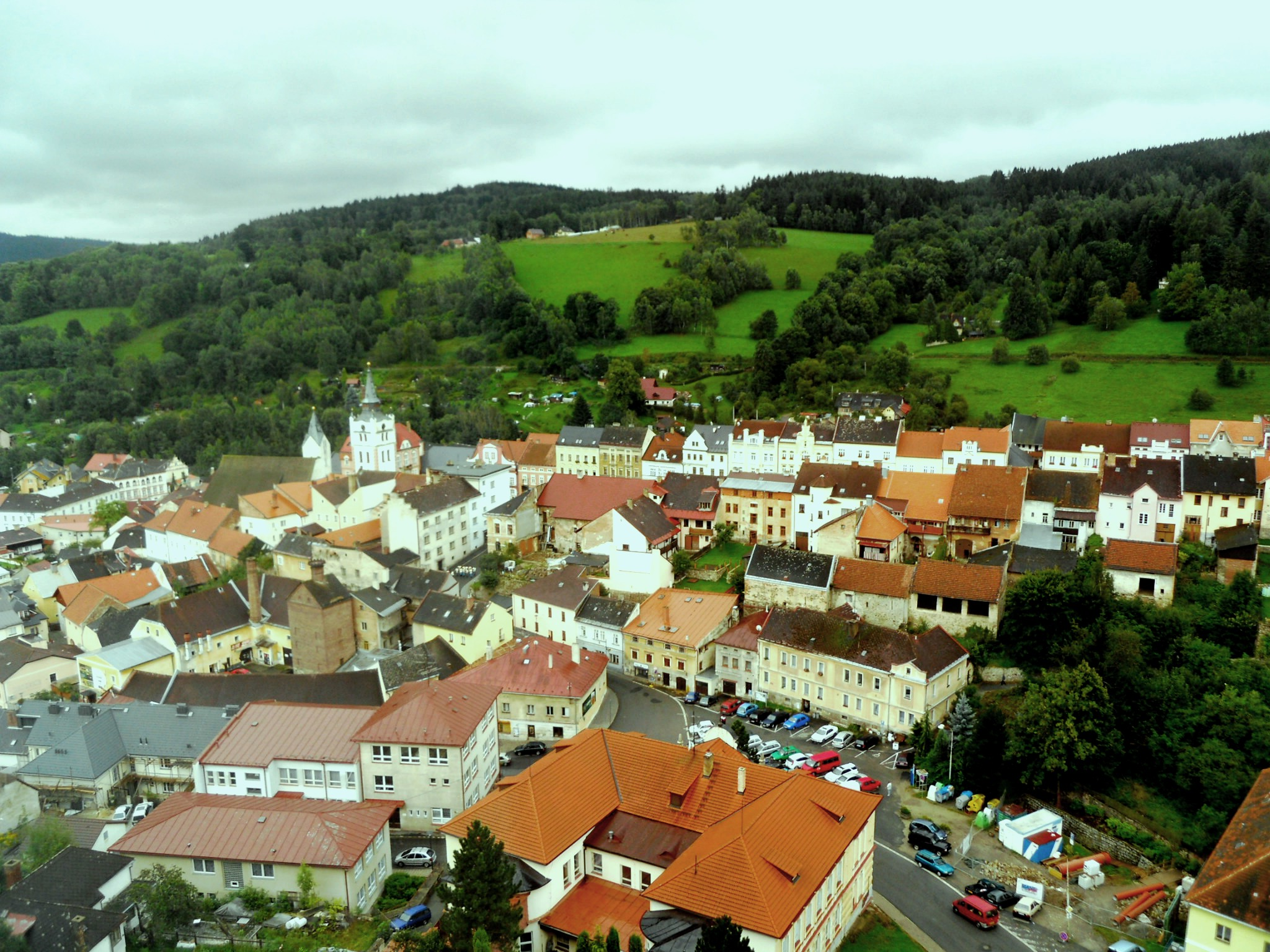 Vimperk, view from the castle